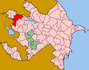 Map of Azerbaijan showing Tovuz rayon.